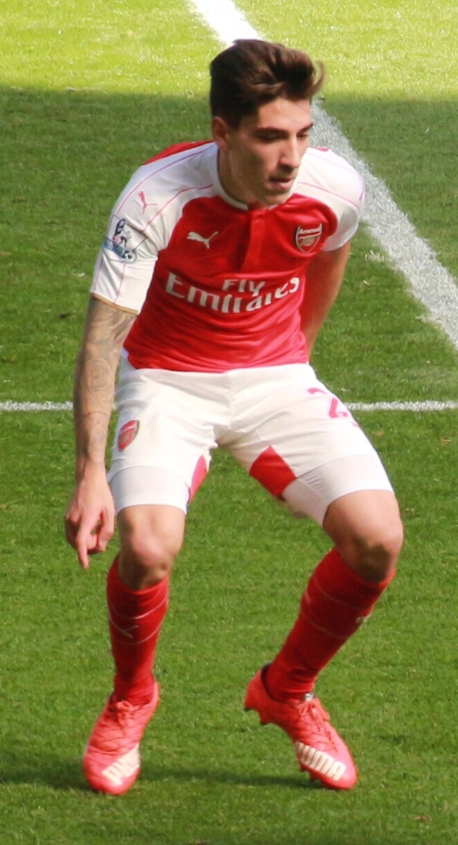 Héctor Bellerín against Chelsea in 2015